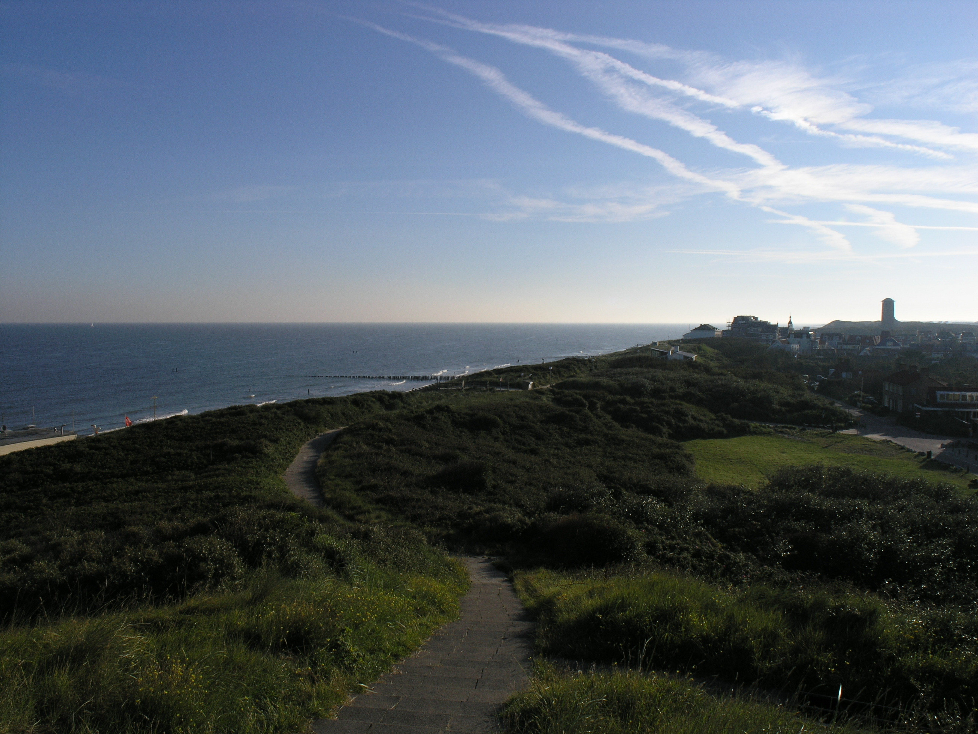 Domburg Morning Panorama from Hoge Hil